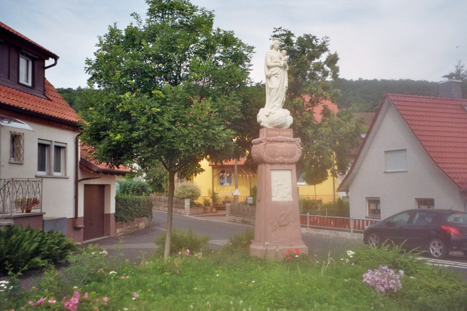 Statue of Holy Mary located in Hausen, a quarter of the German spa town of Bad Kissingen (Lower Franconia, Bavaria).